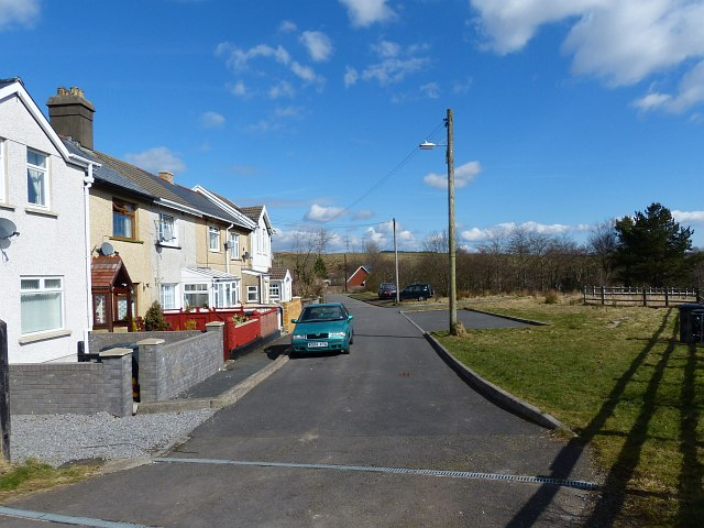 Railway Cottages, Nantybwch Nantybwch station used to be opposite these cottages. This was on the Merthyr, Tredegar and Abergavenny Railway; this section commonly referred to as the Heads of the Valleys Railway. The last passenger train ran on 5th January 1958. The station was also the end of the Sirhowy Valley line. The altitude here is 350 metres and in his book “Lost Railways of South Wales” Mike Hall says “Another bleak unforgiving place, its open-lattice footbridge with no added protection from the elements was not the place to linger on a cold day.” National Cycle Route 46 passes these cottages.